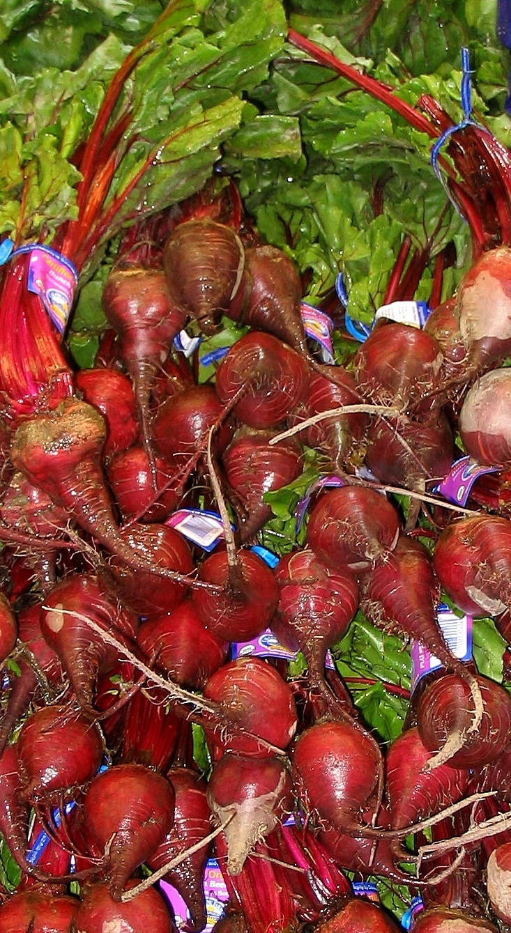 Beets (originally misidentified as turnips)